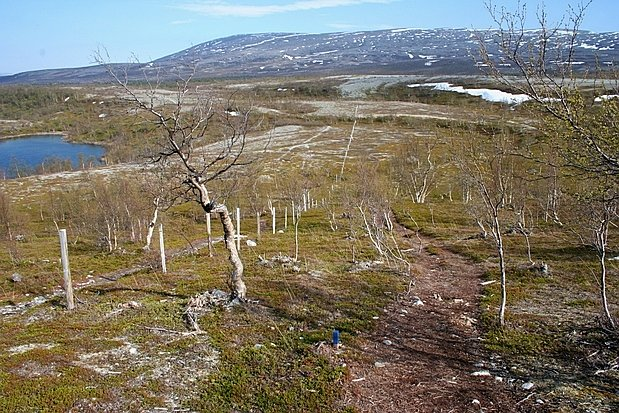 Stabbursdalen national park, Finnmark, Norway.